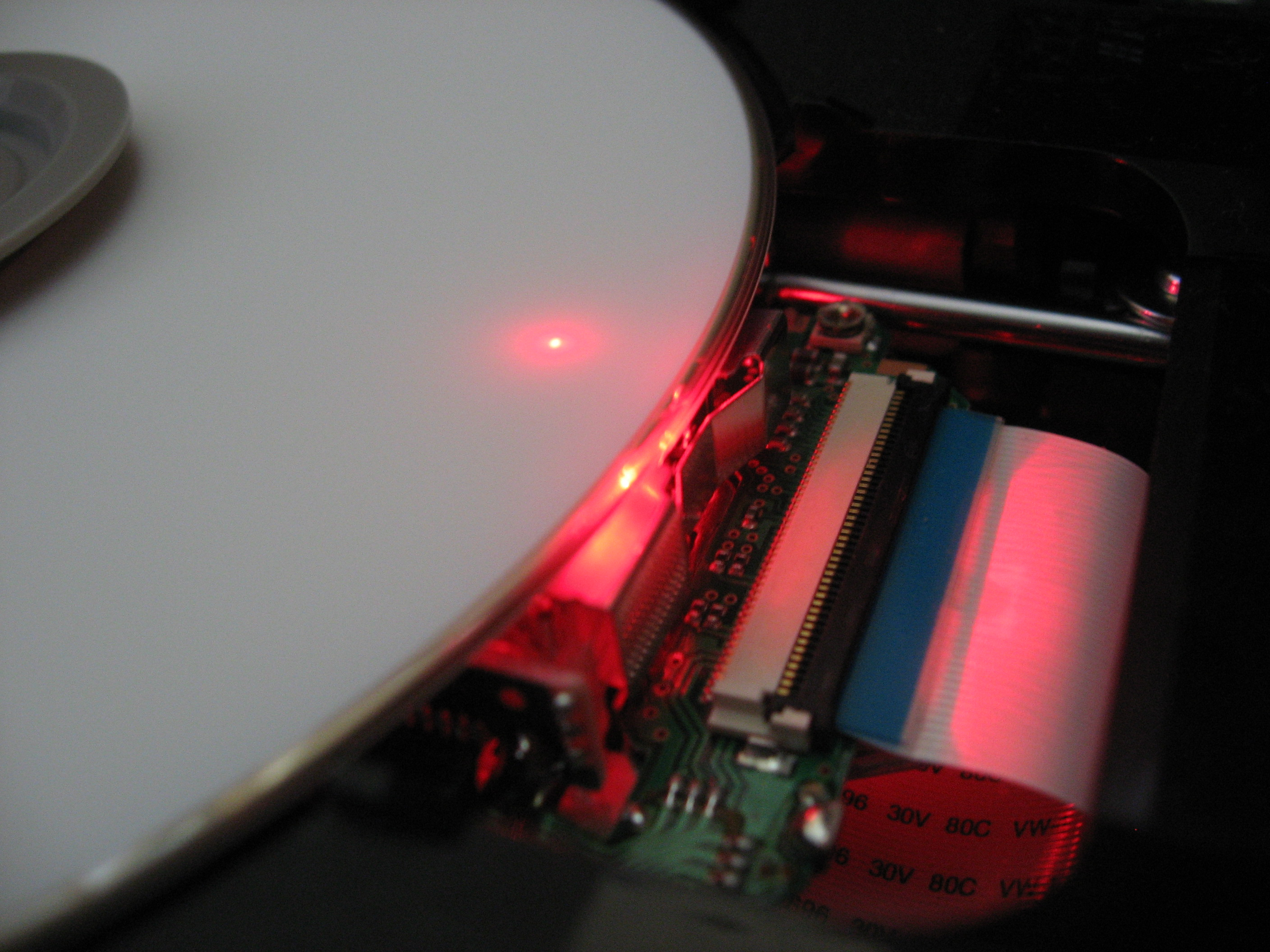 Toshiba-Samsung SH-S182D DVD Writer writing DVD-R disc.